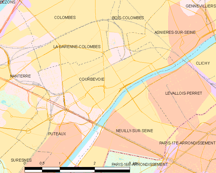 Map of French municipality Courbevoie